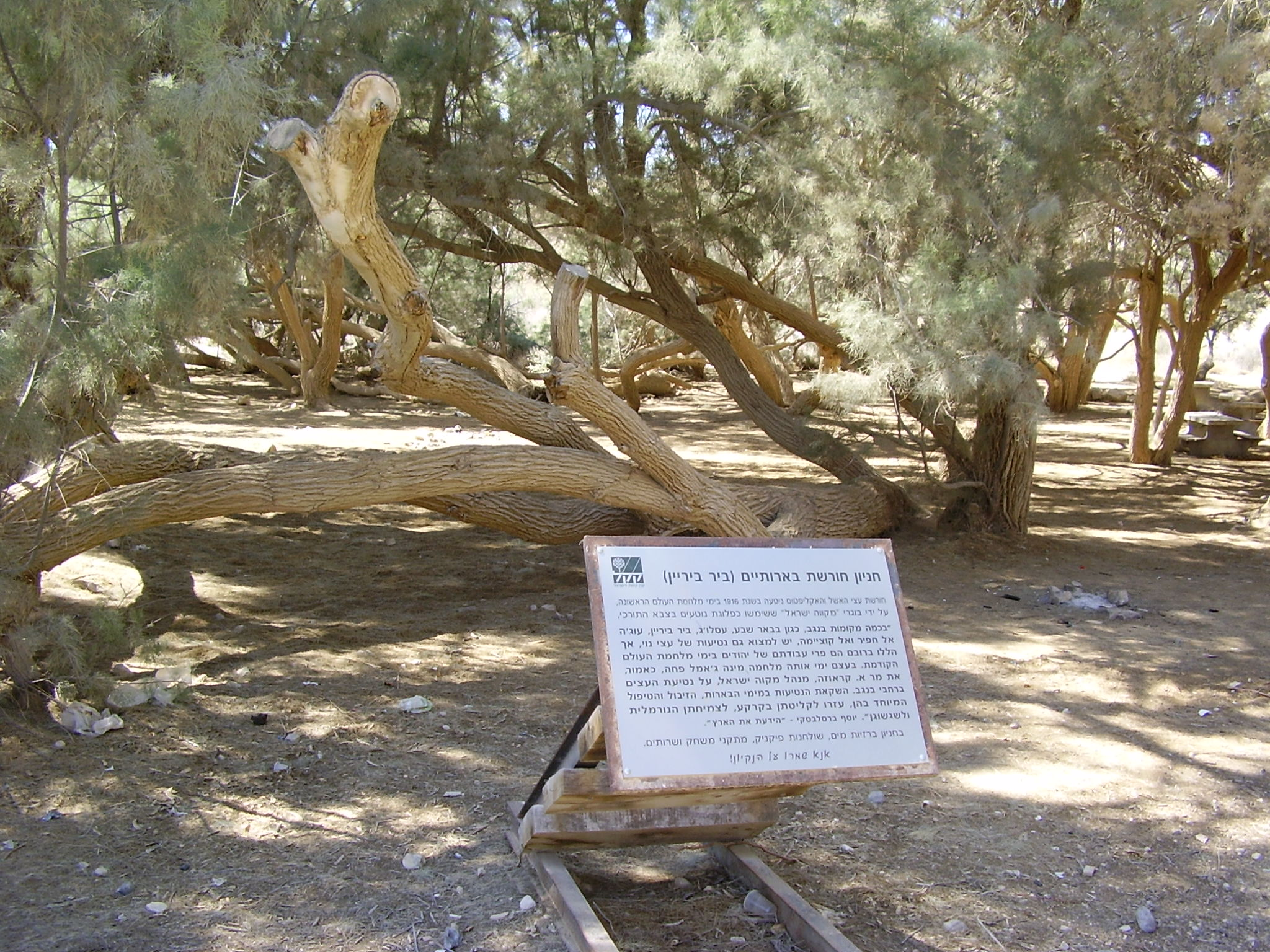 be\'erotaym wood in the negev